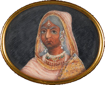 A handsome miniature of Bajibai of Gwalior (Baiza Bai) found during the capture of the Nawab of Farrukhabad's palace in 1857. The Nawab was something of a reluctant rebel, having been forced into supporting the Indian Rebellion of 1857 by the presence of rebel sepoys on his territory. Yet he clearly felt an affinity for the rebel Indian rulers depicted in the miniatures as they were found on display in his bedchamber.